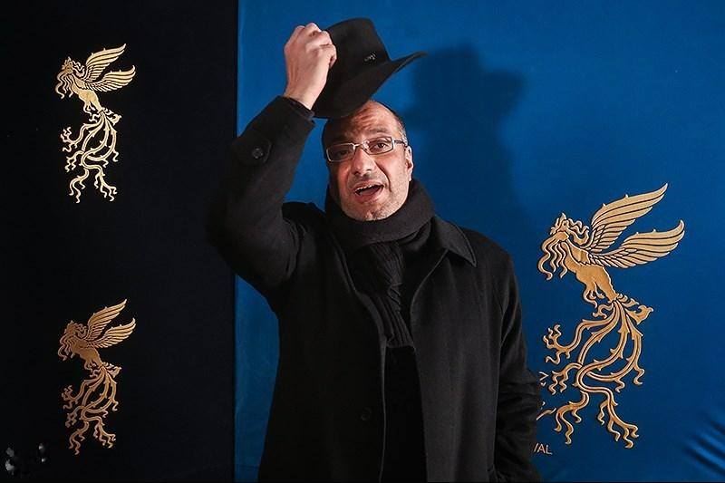 First day of 35th Fajr International Film Festival